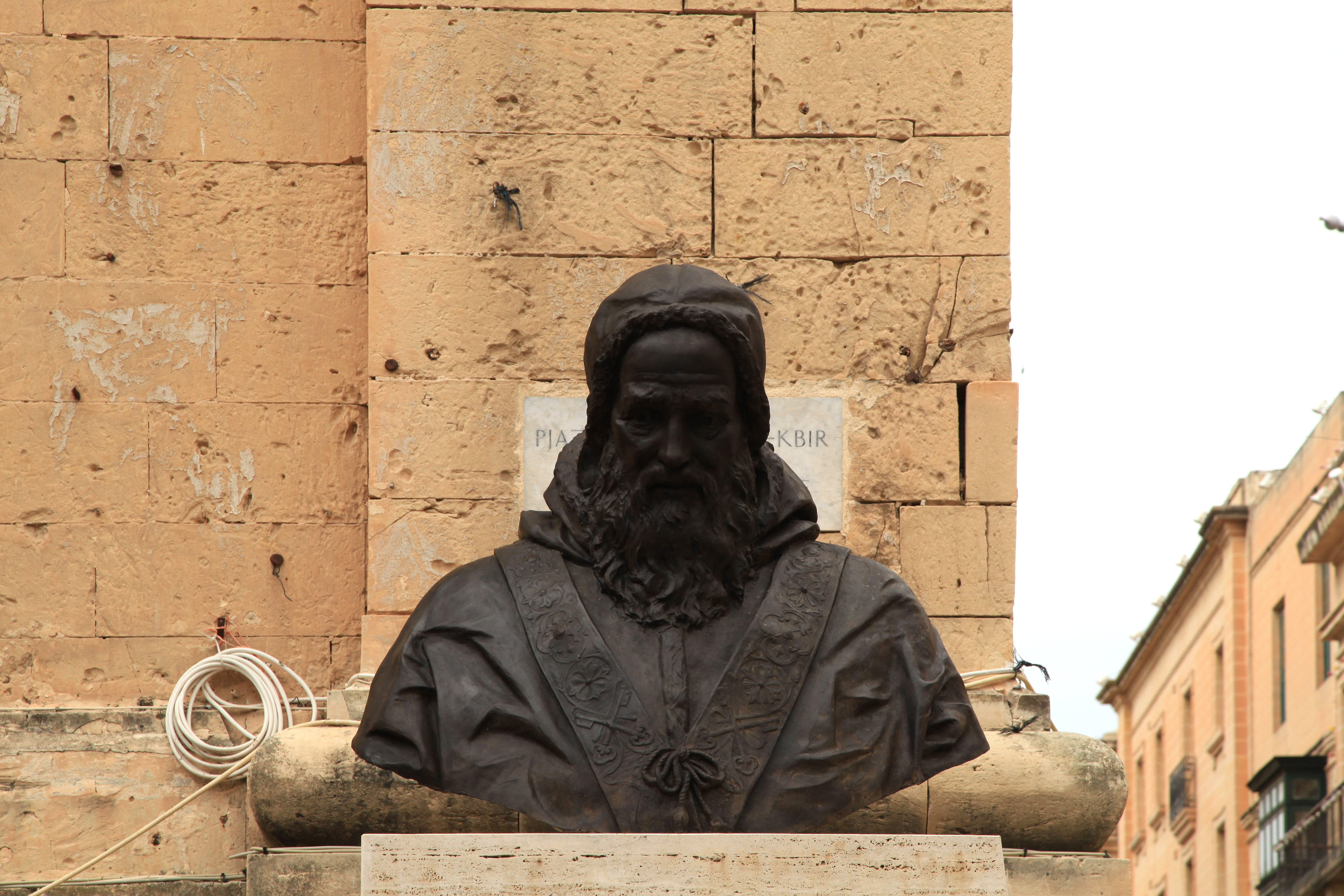 Memorial to Pope Pius V at Misraħ l-Assedju l-Kbir, Triq ir-Repubblika in Valletta, Malta